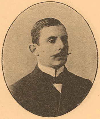 Illustration from Brockhaus and Efron Encyclopedic Dictionary (1890—1907)